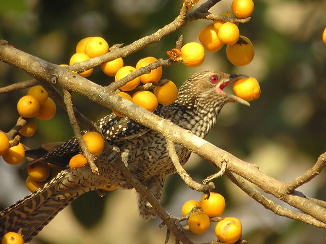 At Dandeli timber depot, Karnataka, India.